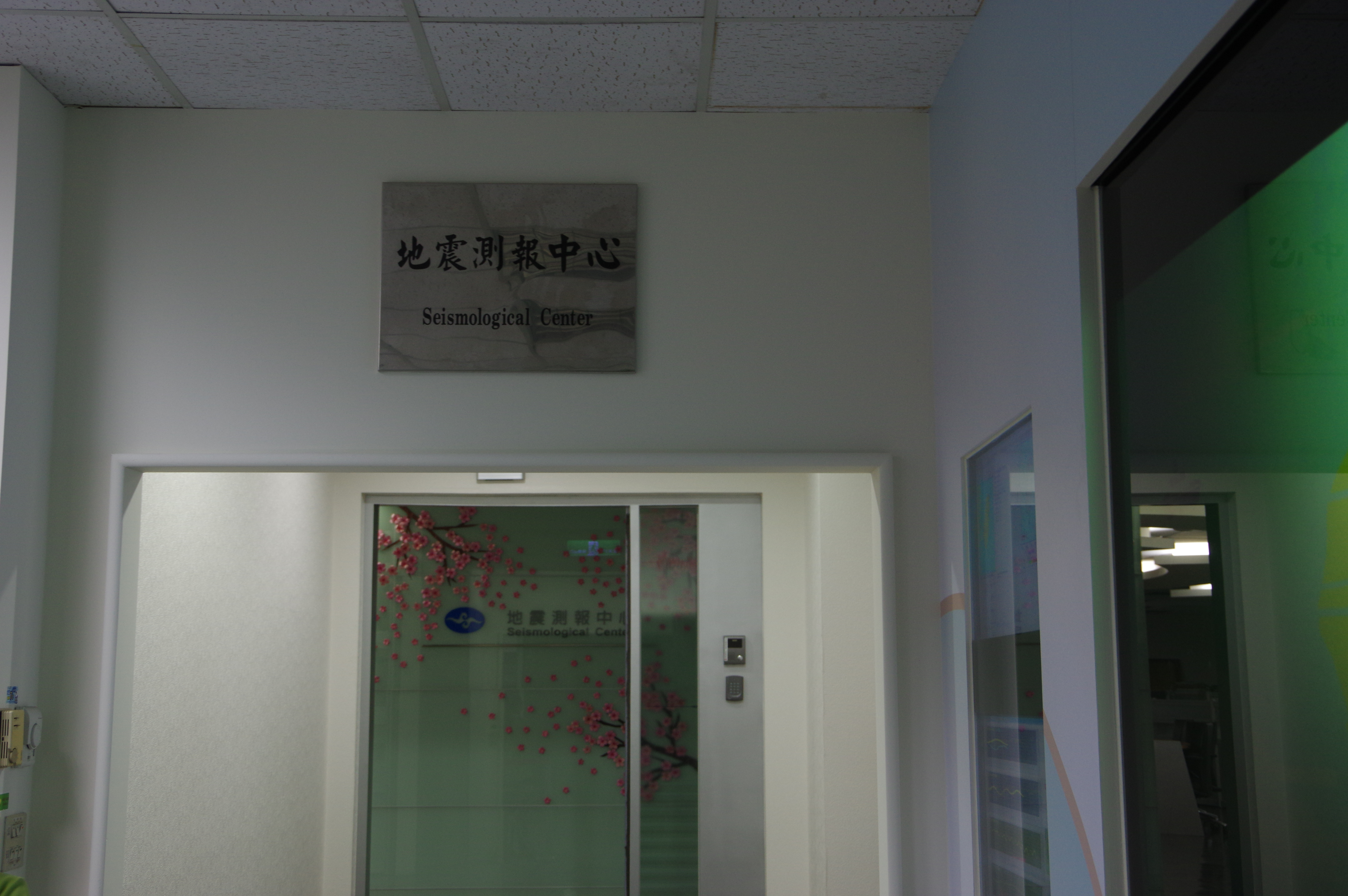 Seismological Center, CWB